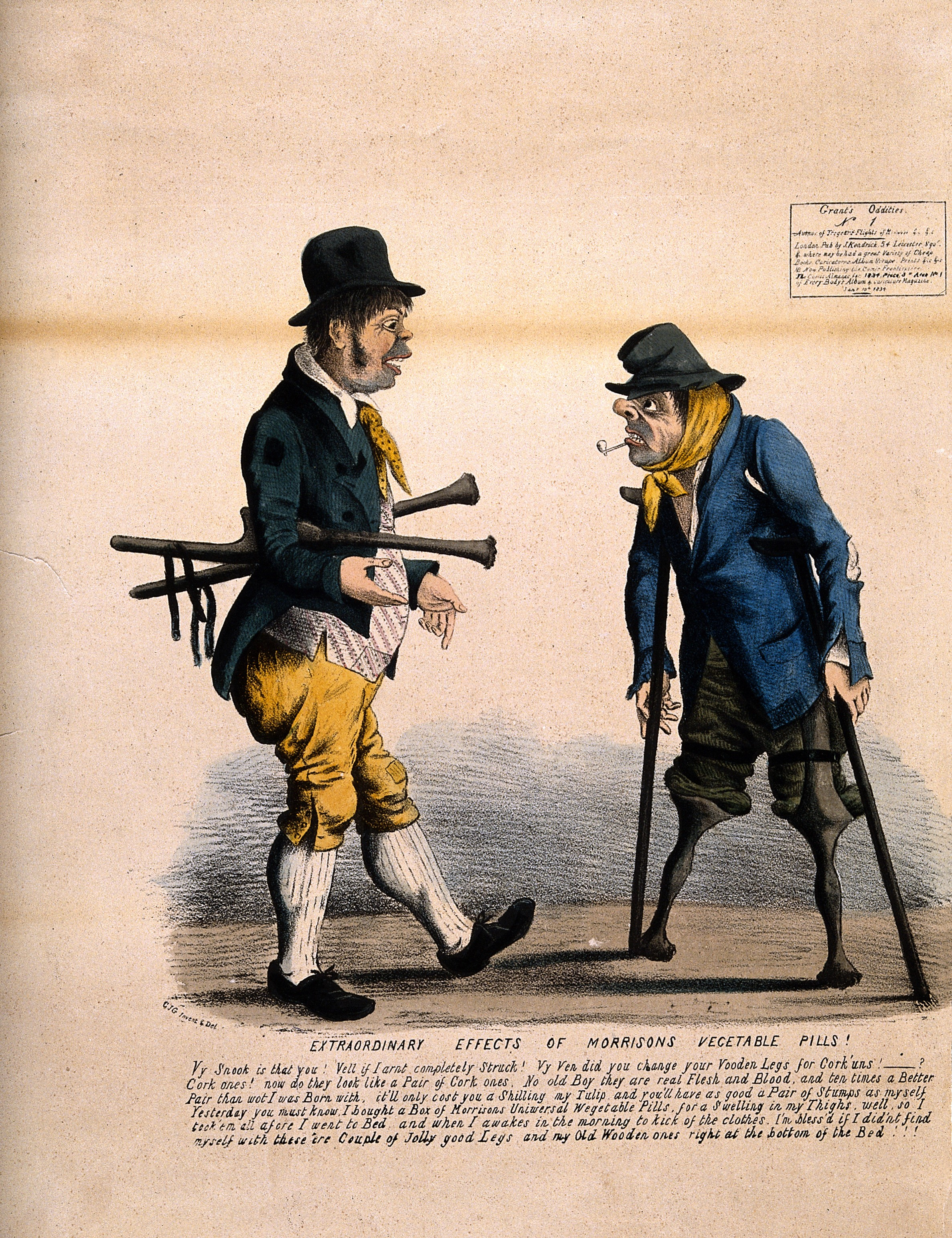 Topic-LCSH: Artificial limbs. Crutches. Tramps. Alternative medicine. Costume -- Great Britain -- 19th century. Genre/Technique: Caricatures. Lithographs.